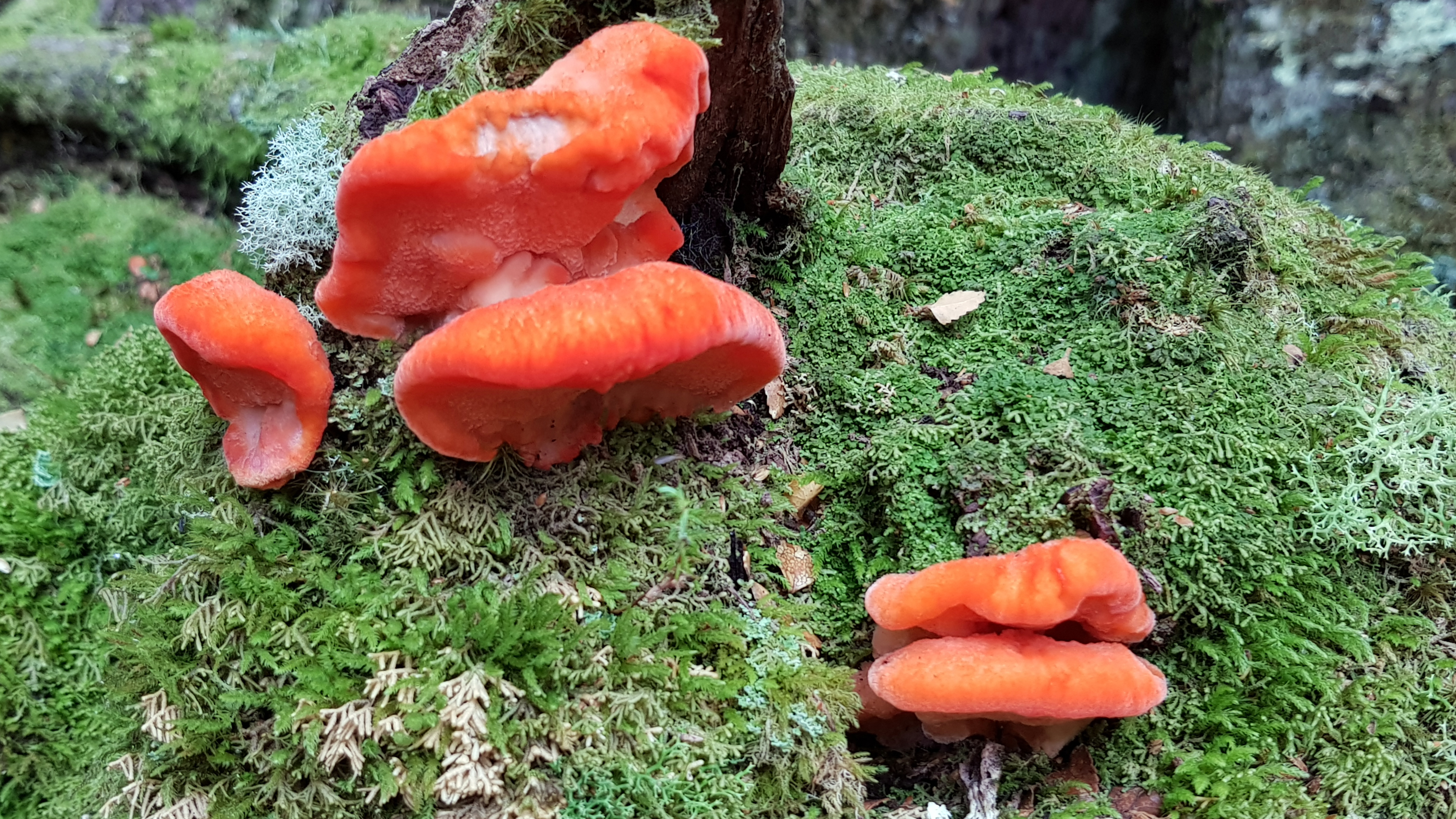 Strawbwerry bracket (Tyromyces pulcherrimus, after categorization by Buchanan and Hood Aurantiporus pulcherrimus) at Cradle Mountain-Lake St. Clair National Park, Tasmania, Australia